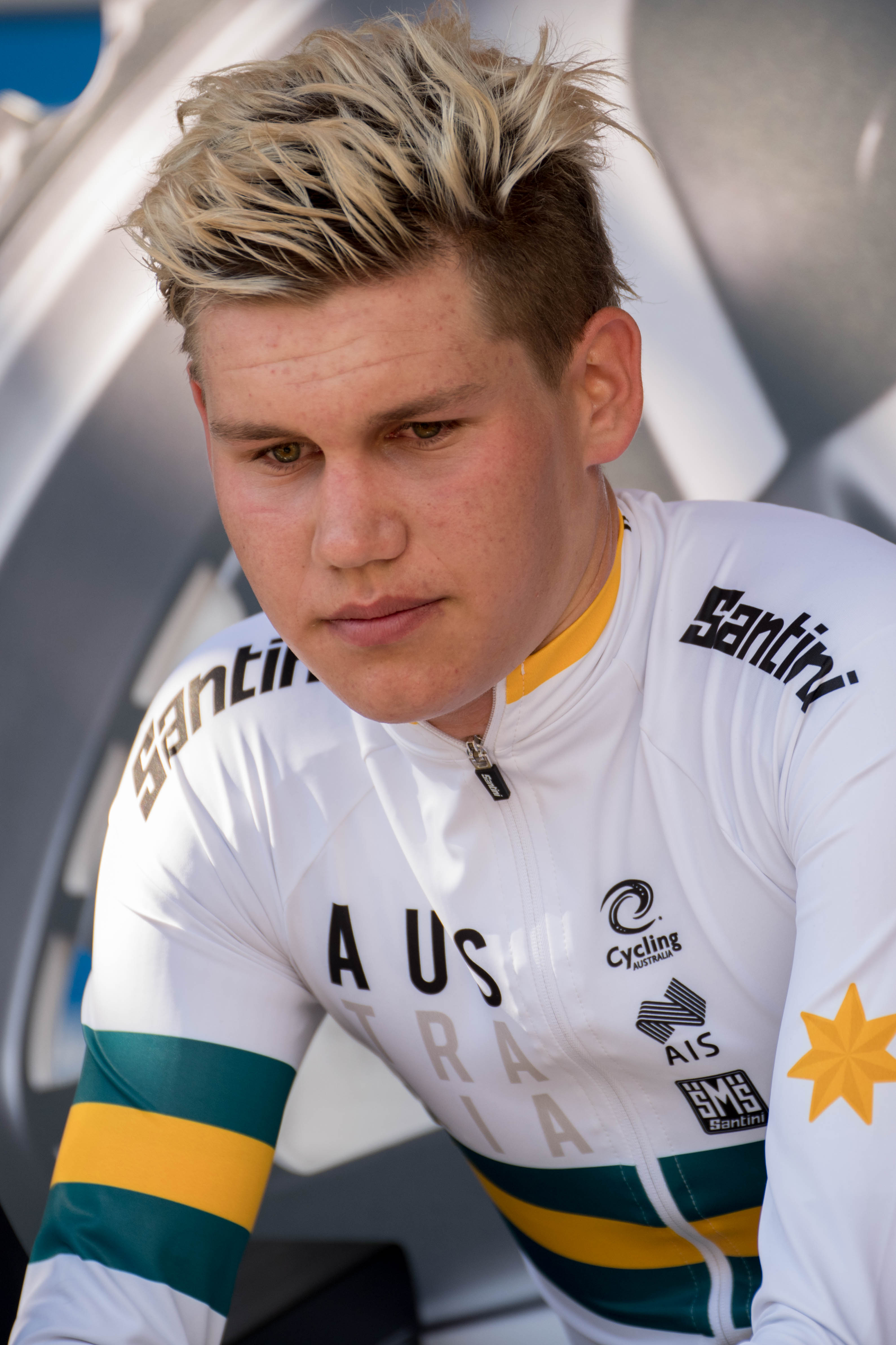 2018 UCI Road World Championships Innsbruck/Tirol Men Juniors Individual Time Trial. Picture shows: Lucas Plapp (AUS)